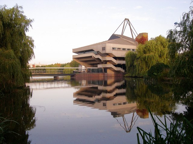 Central Hall, York University